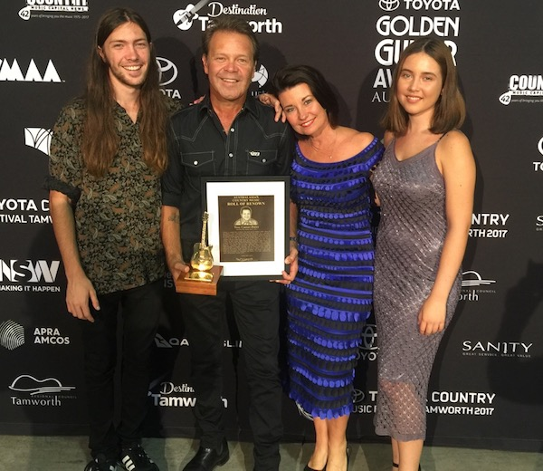 Troy Cassar-Daley with his wife, Laurel Edwards, and their children Clay (left) and Jem (right)